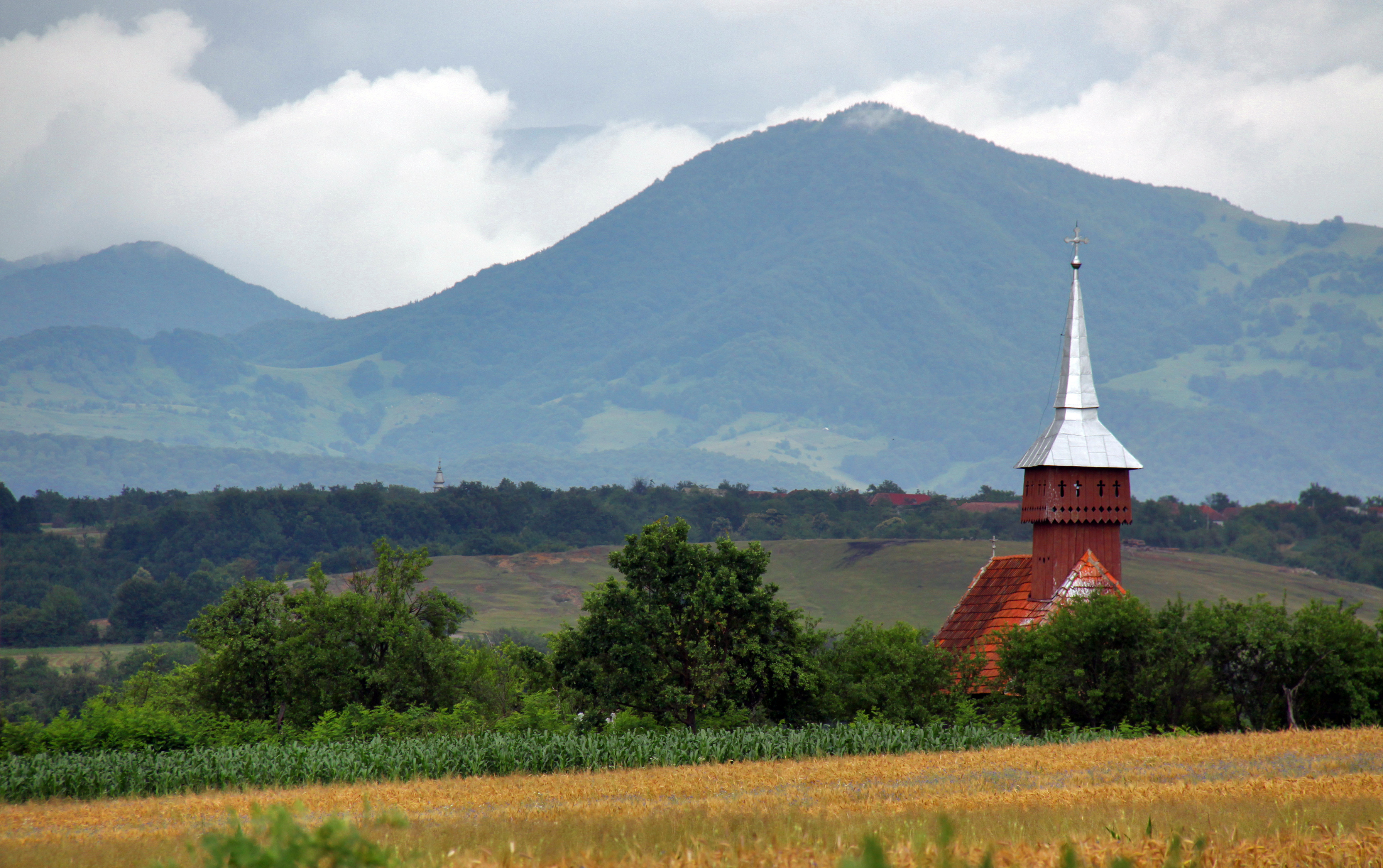 Talpe, Bihor: the wooden church. The wooden church within surroundings.